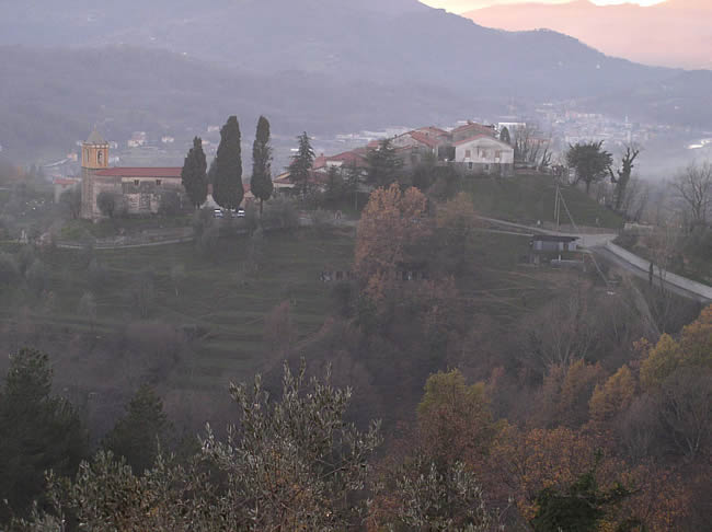 photo of collecchia 1